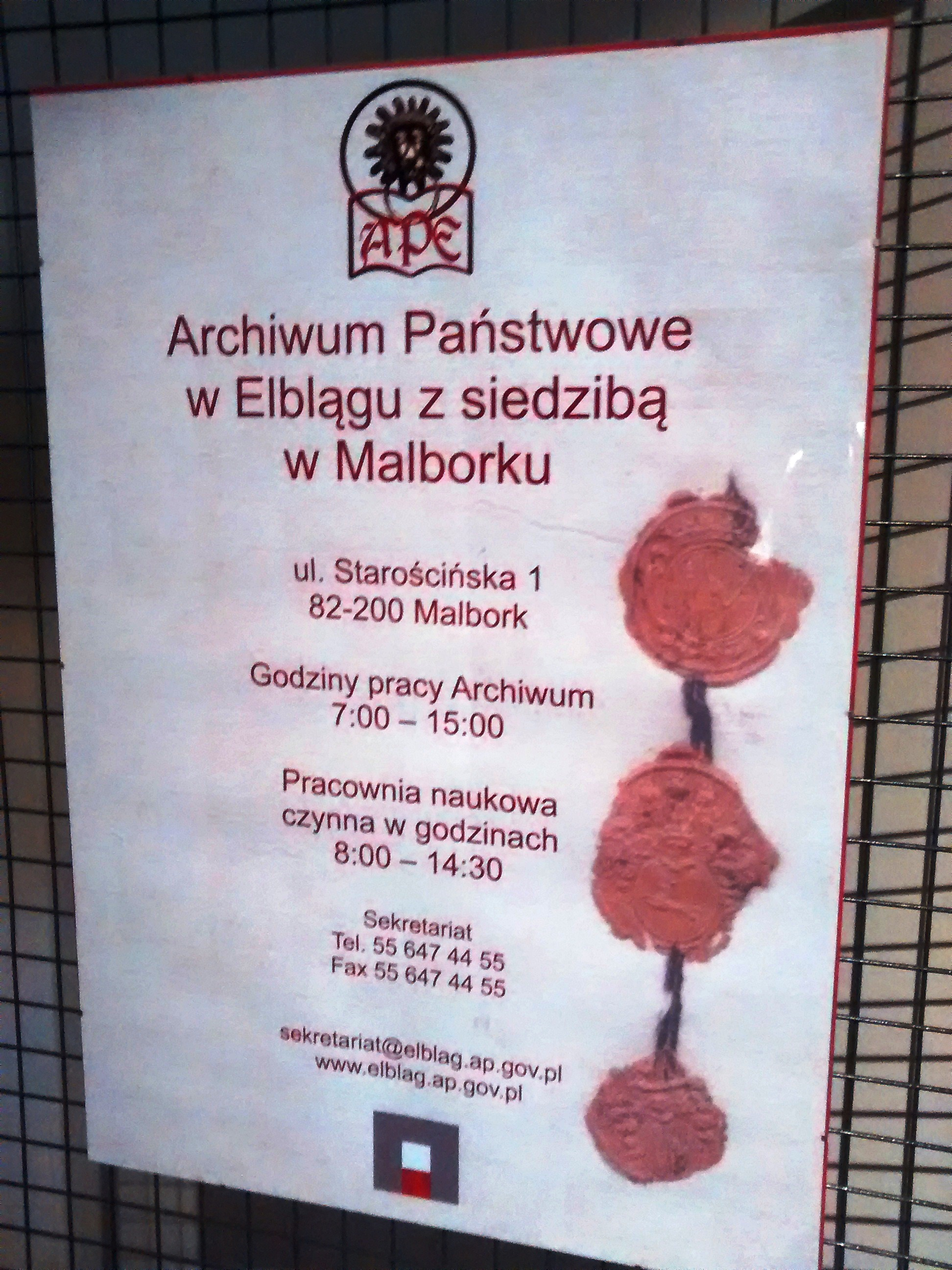 State Archive in Malbork